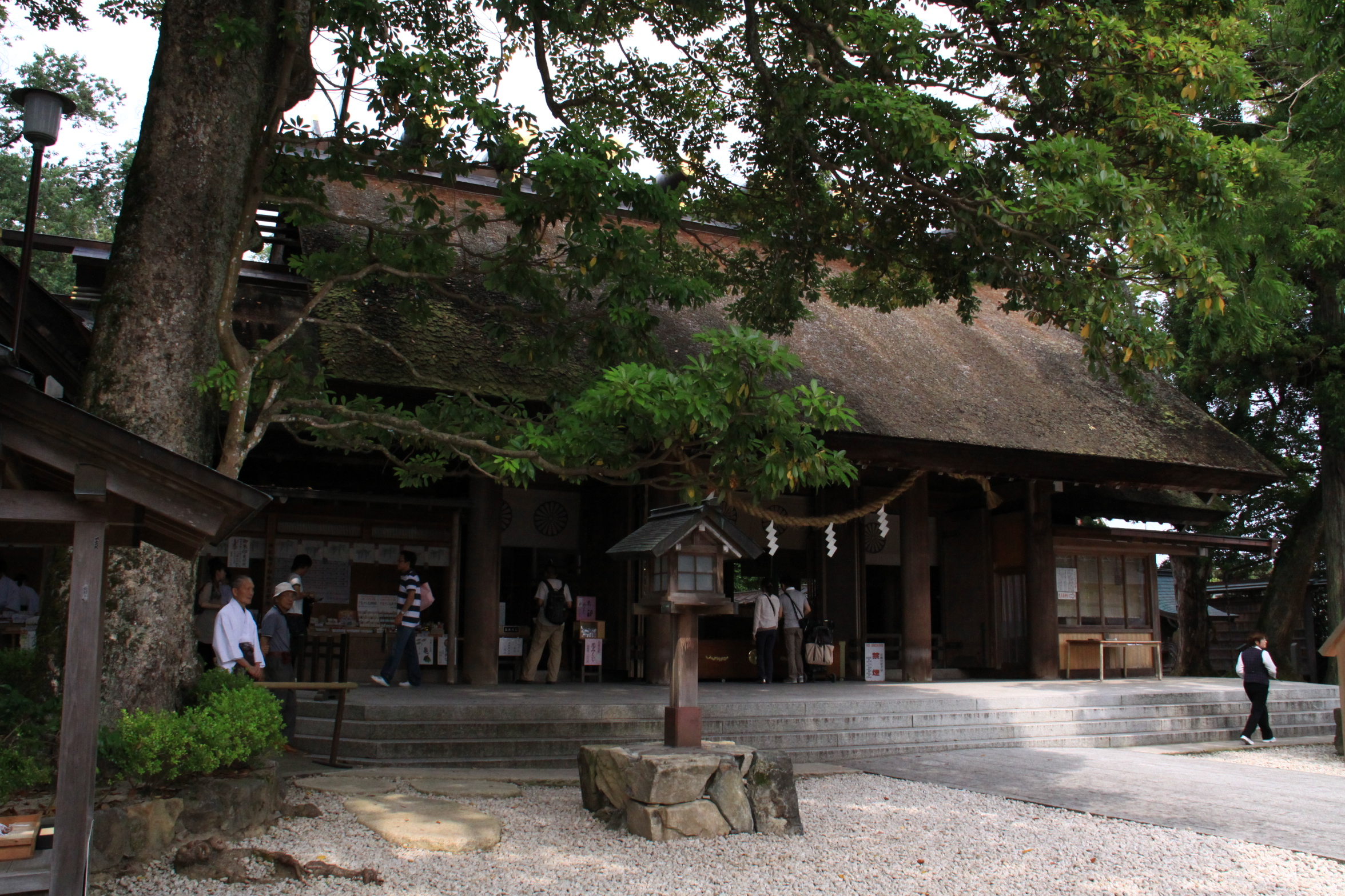 Kono-jinja Haiden